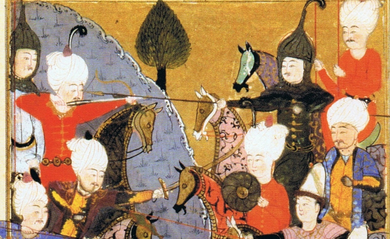 Selim I fighting his brother Ahmed.